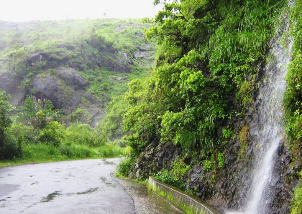 Waterfalls along the way to Vagamon during monsoon.